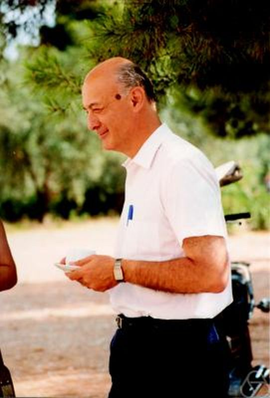 Stylianos Negrepontis 1992